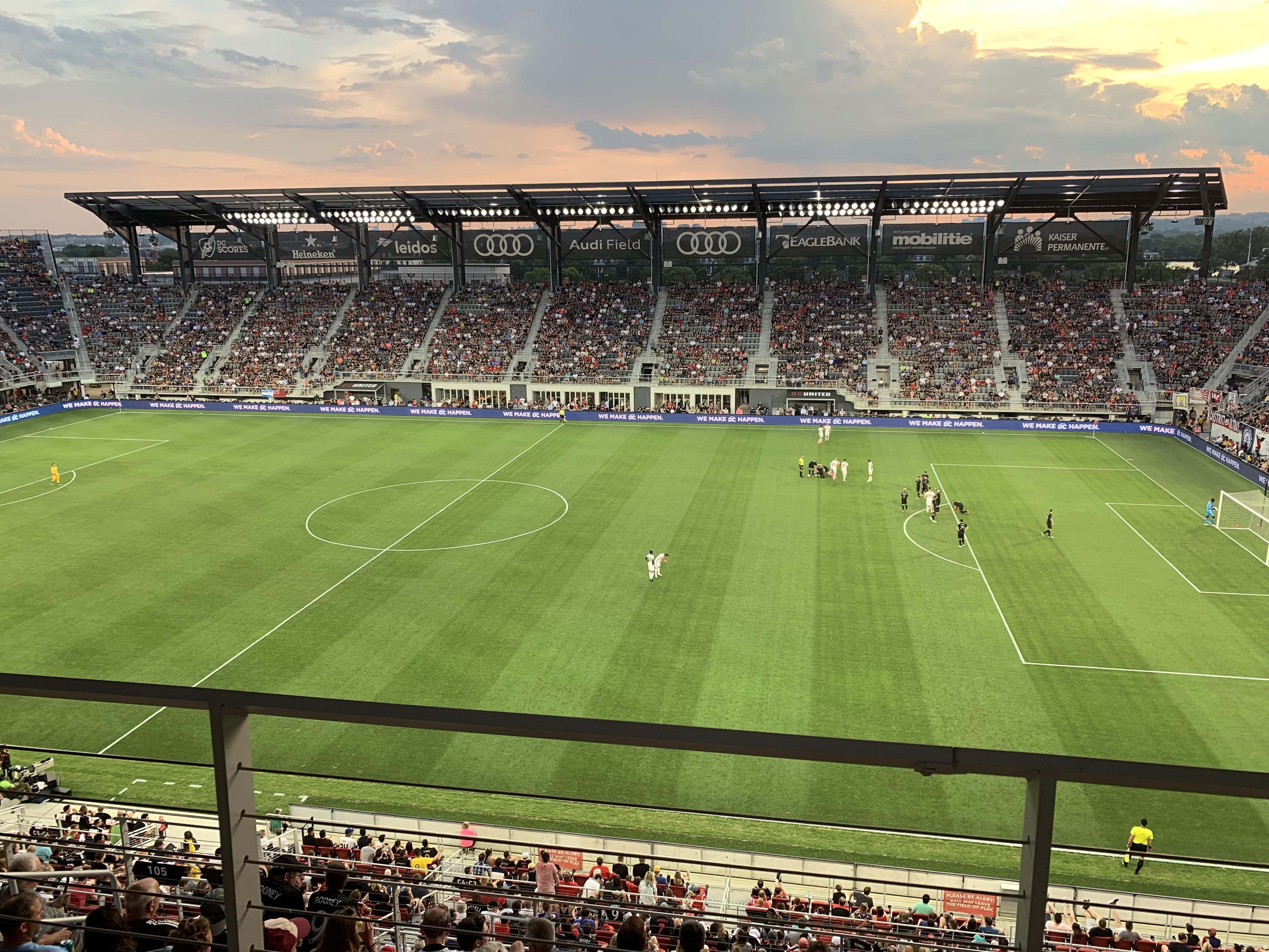 Audi Field during an MLS regular season match between DC United (black) and Toronto FC (white), on June 29, 2019